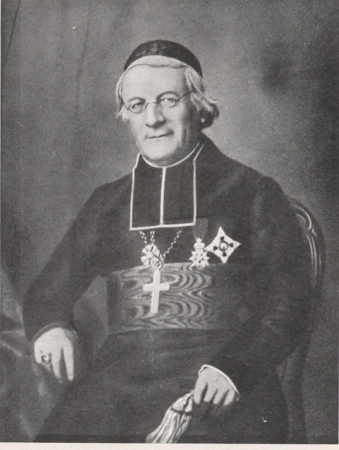 André Raess (de: Andreas Räß) (1794-1887), bishop of Strasbourg, France.